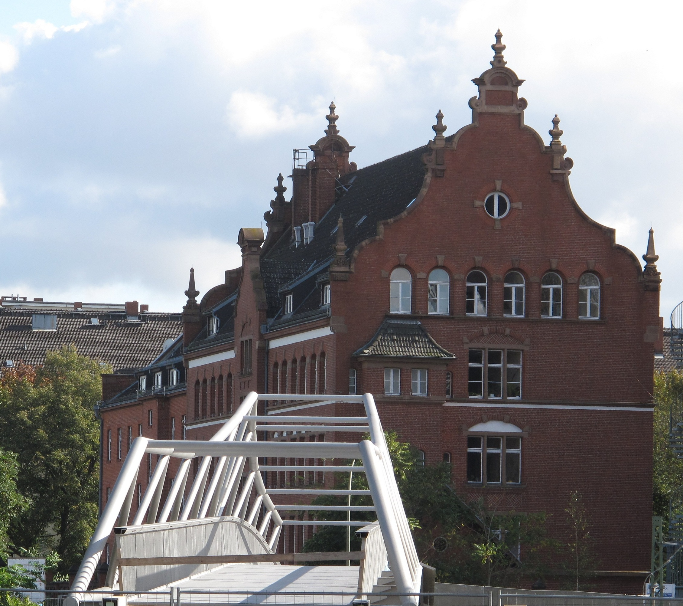 Alfred-Lion-Steg, here in construction in October 2011, with the listed building General-Pape-Straße № 62/66, built in 1895/98, former headquarter of the Prussian Landwehr-inspection, today part of the Robert-Koch-Institute. The Alfred-Lion-Steg is a pedestrian and cyclists' bridge in Berlins Borough Tempelhof-Schöneberg, Germany. The 93,30 meters long dual-span construction of steel tube was opened in November 2012. It leads the Hertha-Block-Promenade of the also new built Ost-West-Grünzug (german for: east-west-greenbelt) in the north of the railway station Berlin Südkreuz over the lines of the Dresden and Anhalt Railway and connects the district Schöneberg from the Rote Insel (literally, Red Island) with the district Tempelhof at the General-Pape-Straße. The bridge is named after Alfred Lion, co-founder of the jazz record label Blue Note.